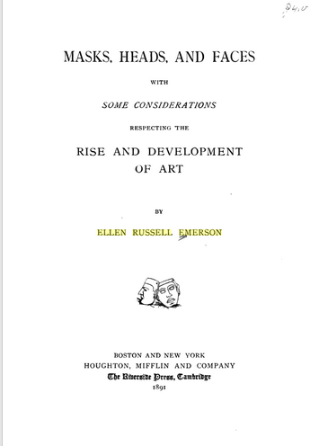 "Masks, Heads, and Faces: With Some Considerations Respecting the Rise and Development of Art", by Ellen Russell Emerson